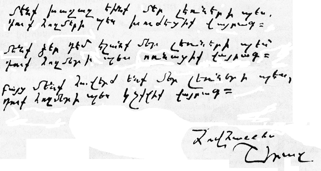 The "Expromt" by Hovhannes Shiraz